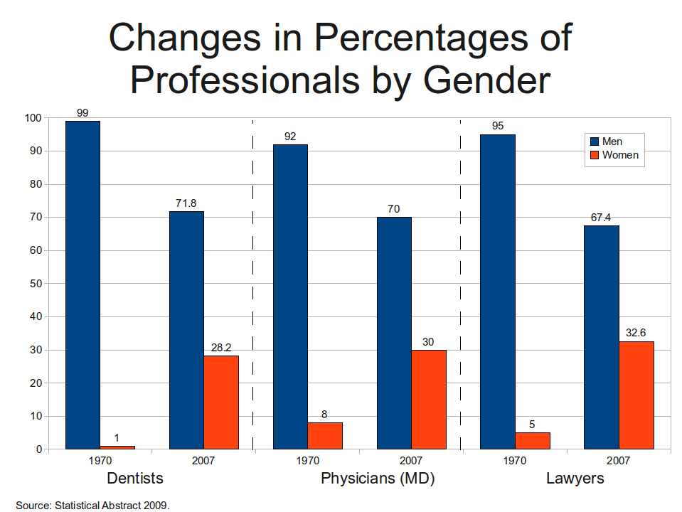 This is a chart depicting the change in the percentage of women in three professional occupations from 1970 to 2007. Source: Statistical Abstract.